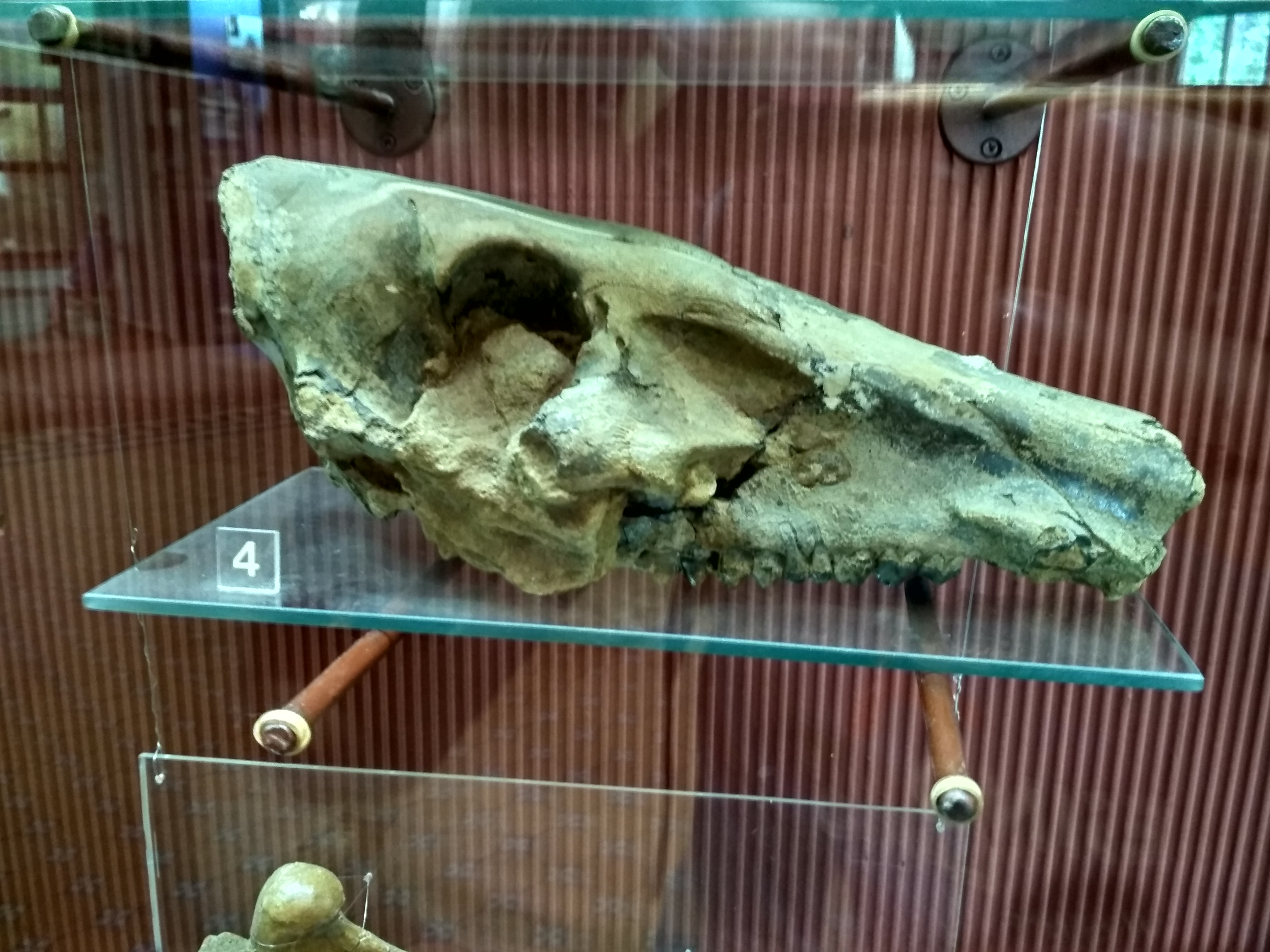 Skull of Propotamochoerus provincialis (upper Pliocene – 4-3 mln. ani), found in the Musaitu ravine, Musaitu village, Taraclia district, Moldova